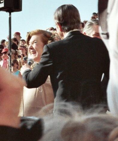 Actress Anne Ramsey, nominated for "Throw Momma from the Train" at 1988 Academy Awards